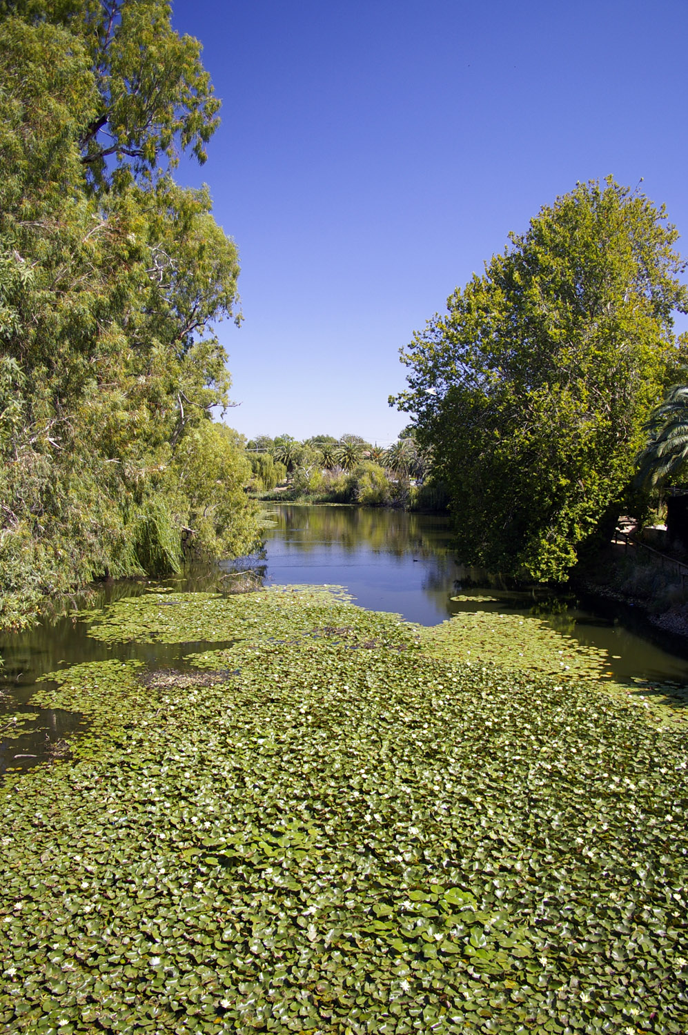 Wollundry Lagoon. Wagga Wagga, New South Wales